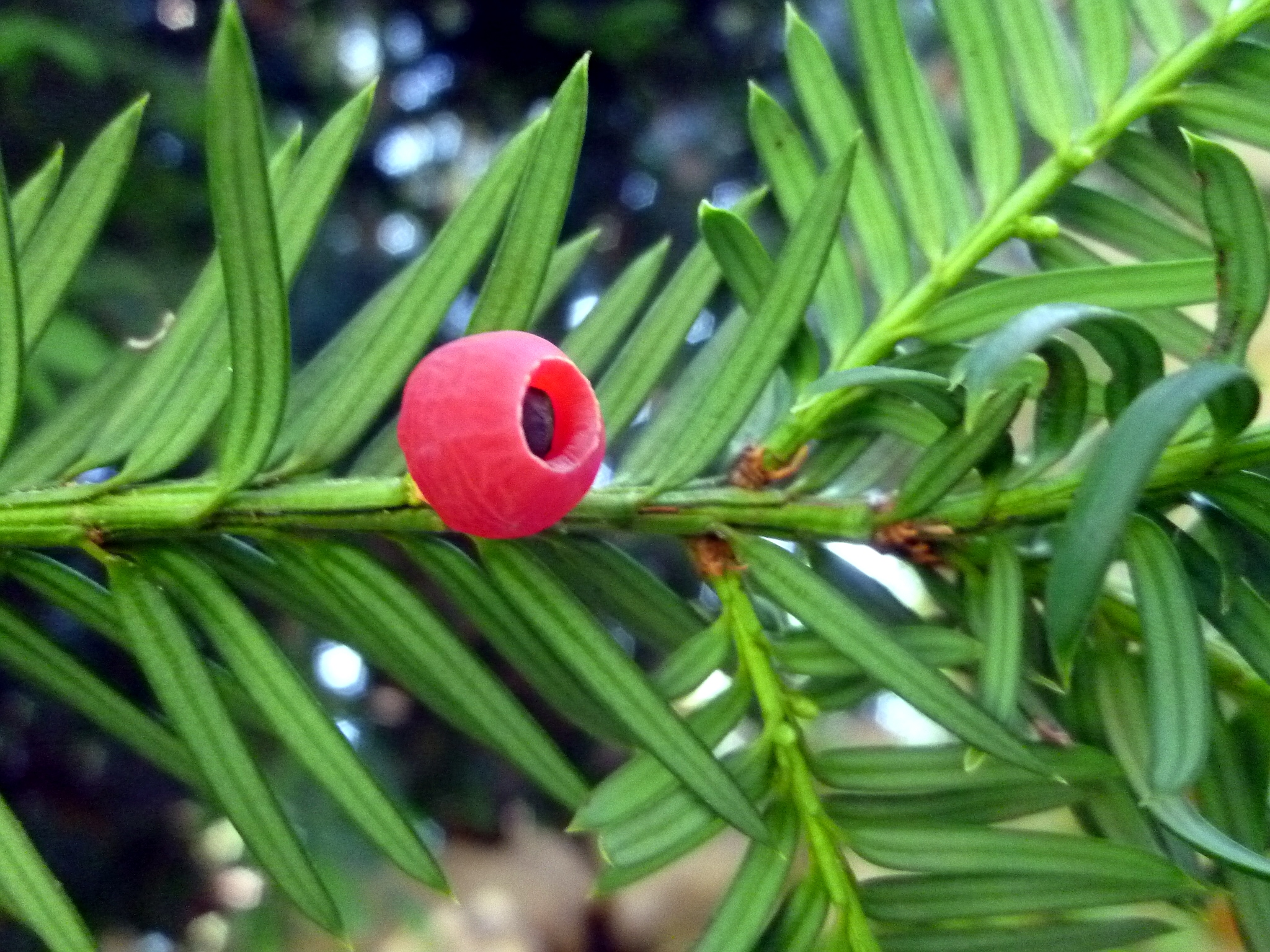 Taxus baccata. In Gósol (Berguedà - Catalunya). To 1.370 m. altitude